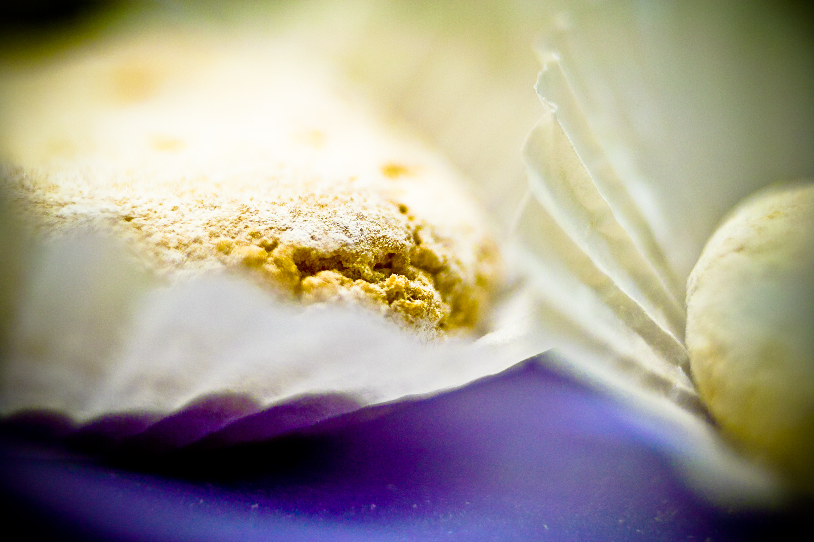 Macro: Christmas sweets from Siena in Italy.Ricciarelli